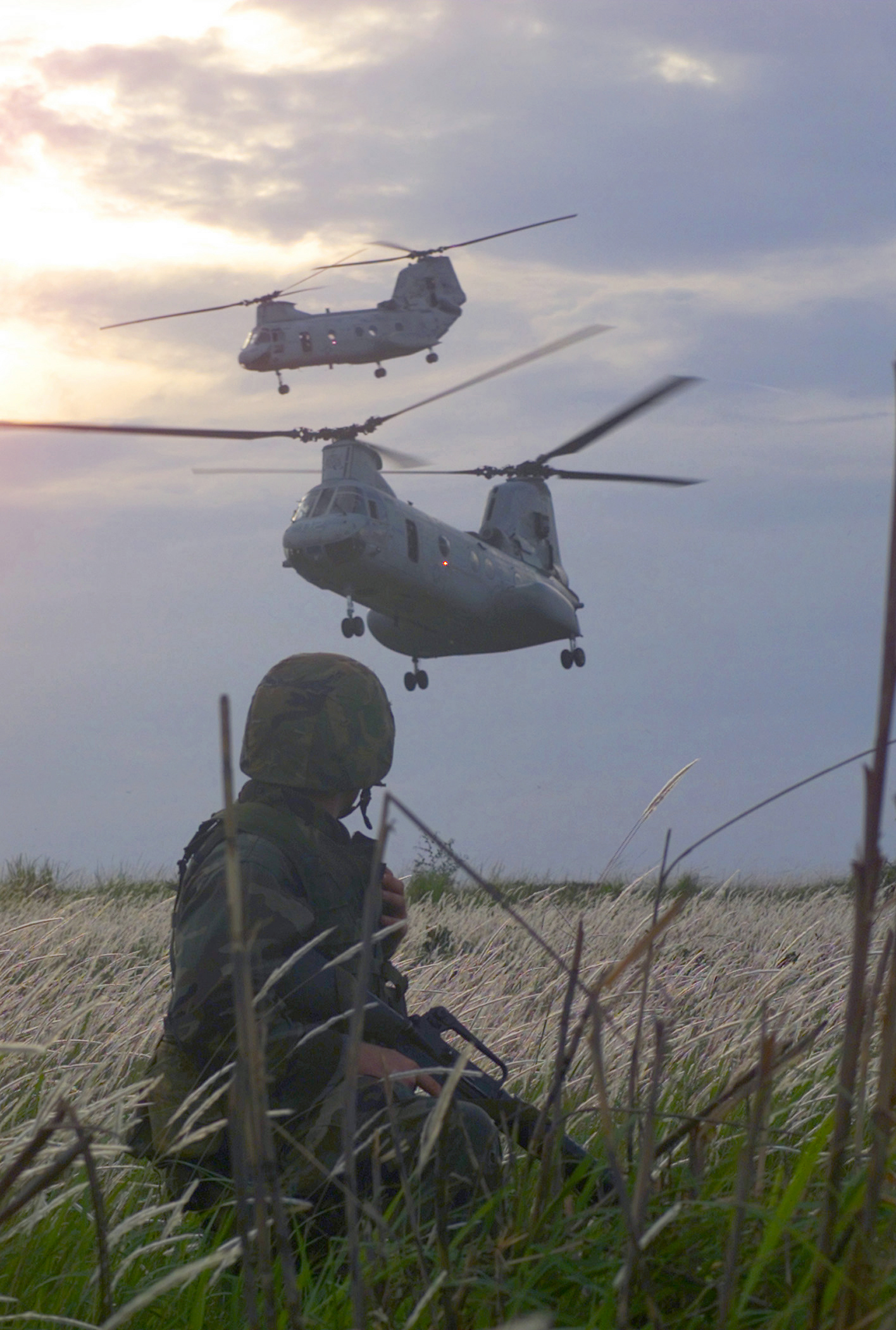 Ban Chan Khrem, Thailand (May 14, 2002) -- Marines assigned to Battalion Landing Team, 3rd Battalion, 5th Marine Regiment (BLT 3/5), the ground combat element of the 31st Marine Expeditionary Unit (MEU) Special Operations Capable (SOC), based in Okinawa, Japan, conduct a live fire and maneuver exercise during Exercise Cobra Gold 2002. Cobra Gold 2002 is the 21st U.S. Pacific Command exercise conducted in Thailand demonstrating the ability of U.S. Forces to deploy rapidly and conduct joint-combined operations with the Thai and Singapore armed forces. U.S. Marine Corps photo by Sgt. Stephen D'Alessio. (RELEASED)